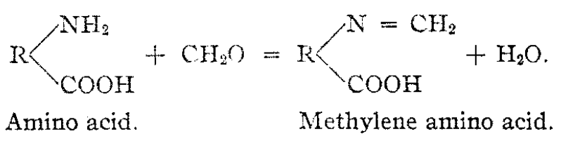 Formol titration equation in general